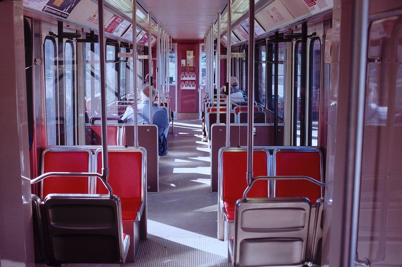 1987 view of the interior of one of the Bombardier LRVs (light rail vehicles) that made up the entire fleet of the single-route MAX Light Rail system at the time, looking towards one end from the car's articulation/turntable. Note the bell cords above the windows, which passengers would pull down on to ring a bell to tell the operator they wished to get off at the next station – a feature that was effectively only needed during the line's early years (when ridership was much lower) and later only for the line's lesser-used stations at times of day when ridership was low (such as late night and Sunday mornings). The bell cords were removed in 1994, after which all MAX trains were required to stop at every station at all times. The seat cushions were in colors of red and dark burgundy at that time, whereas after overhauls in the 2000s and 2010s they were purple.